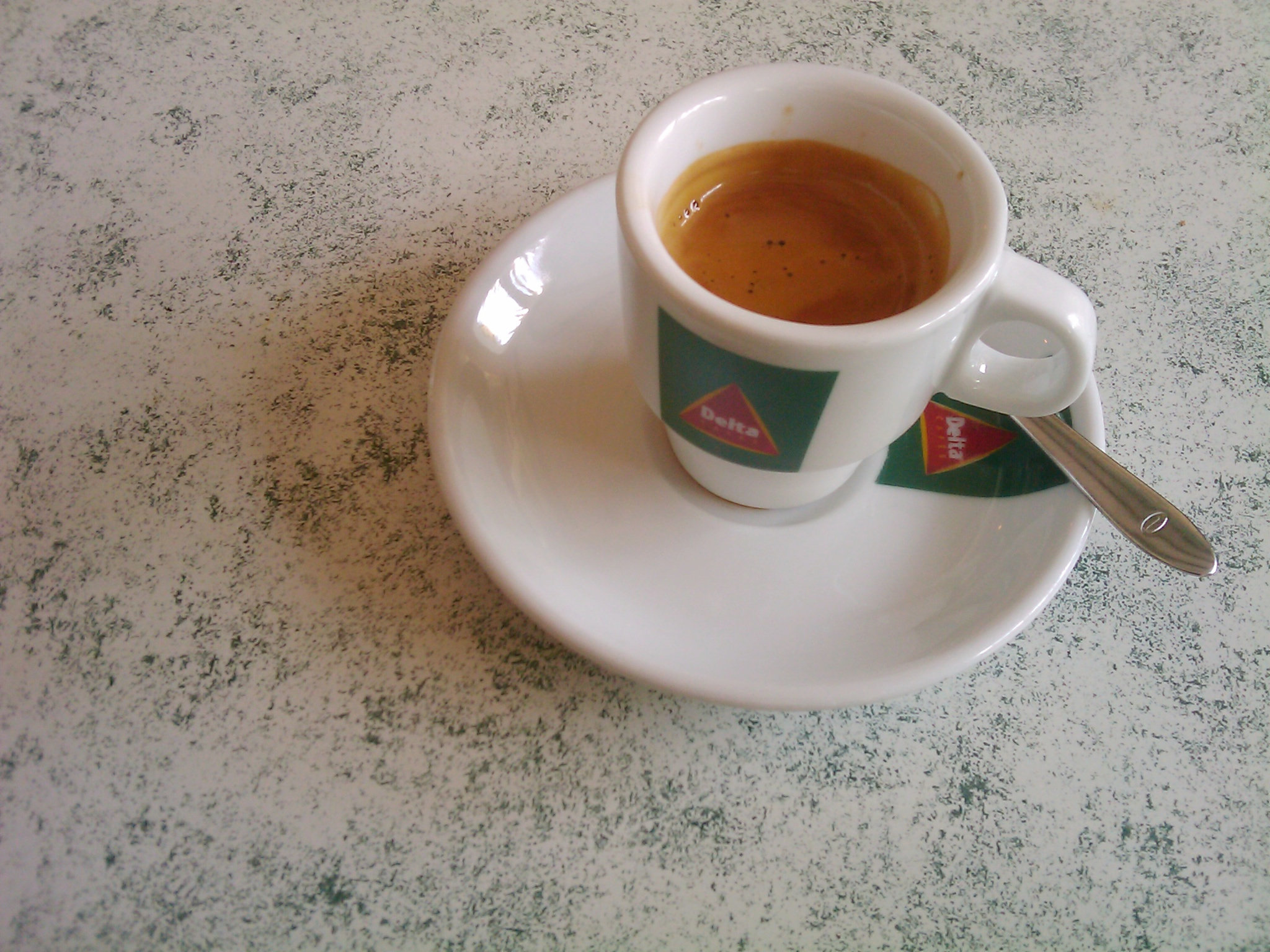 A Delta Cafés (Nabeiro Group) coffee. Photo by ricardo /